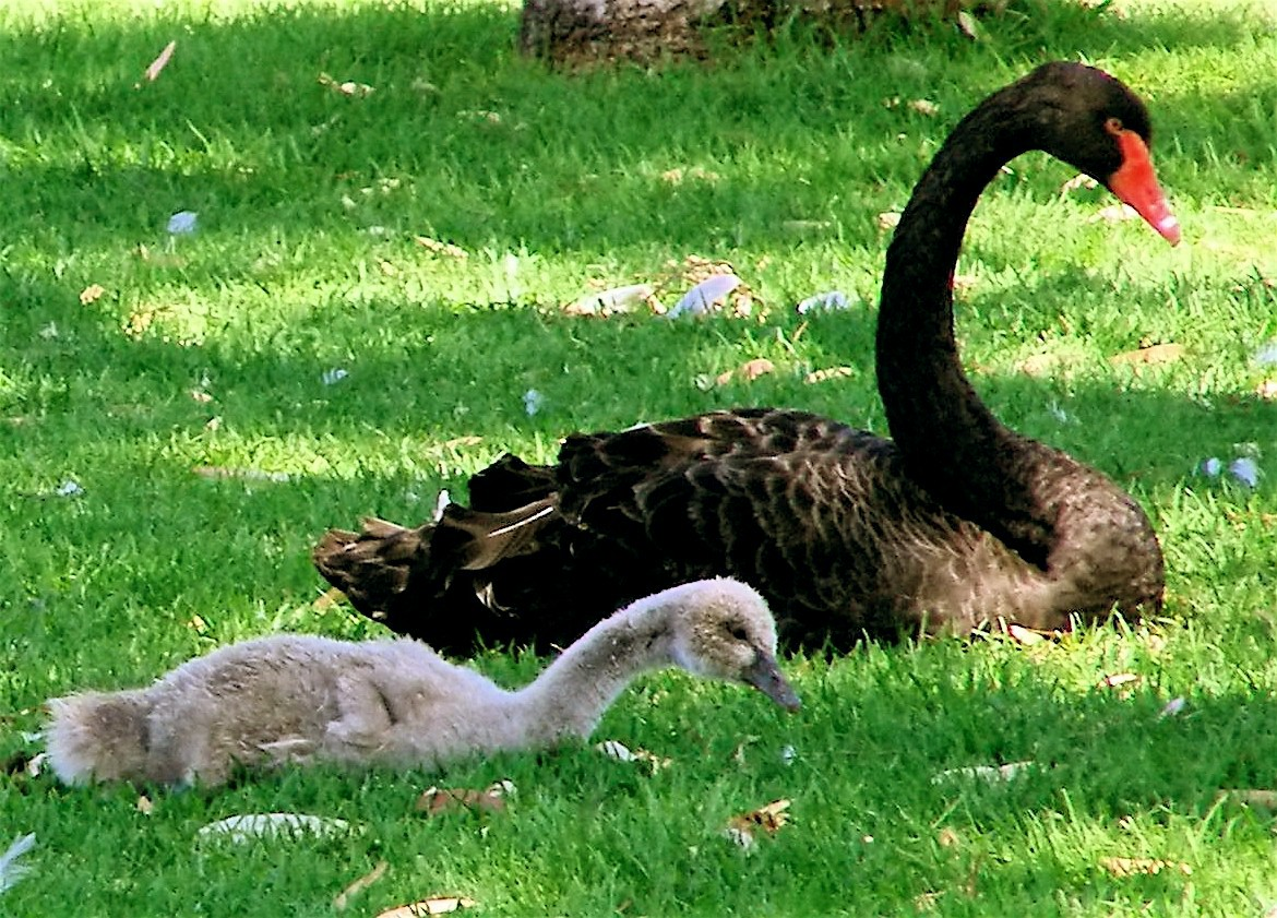 Black Swan (Cygnus atratus) and cygnet. Photo D.M. Vernon, 2006 Summary Black Swan (Cygnus atratus) and cygnet. Photo D.M. Vernon, 2006